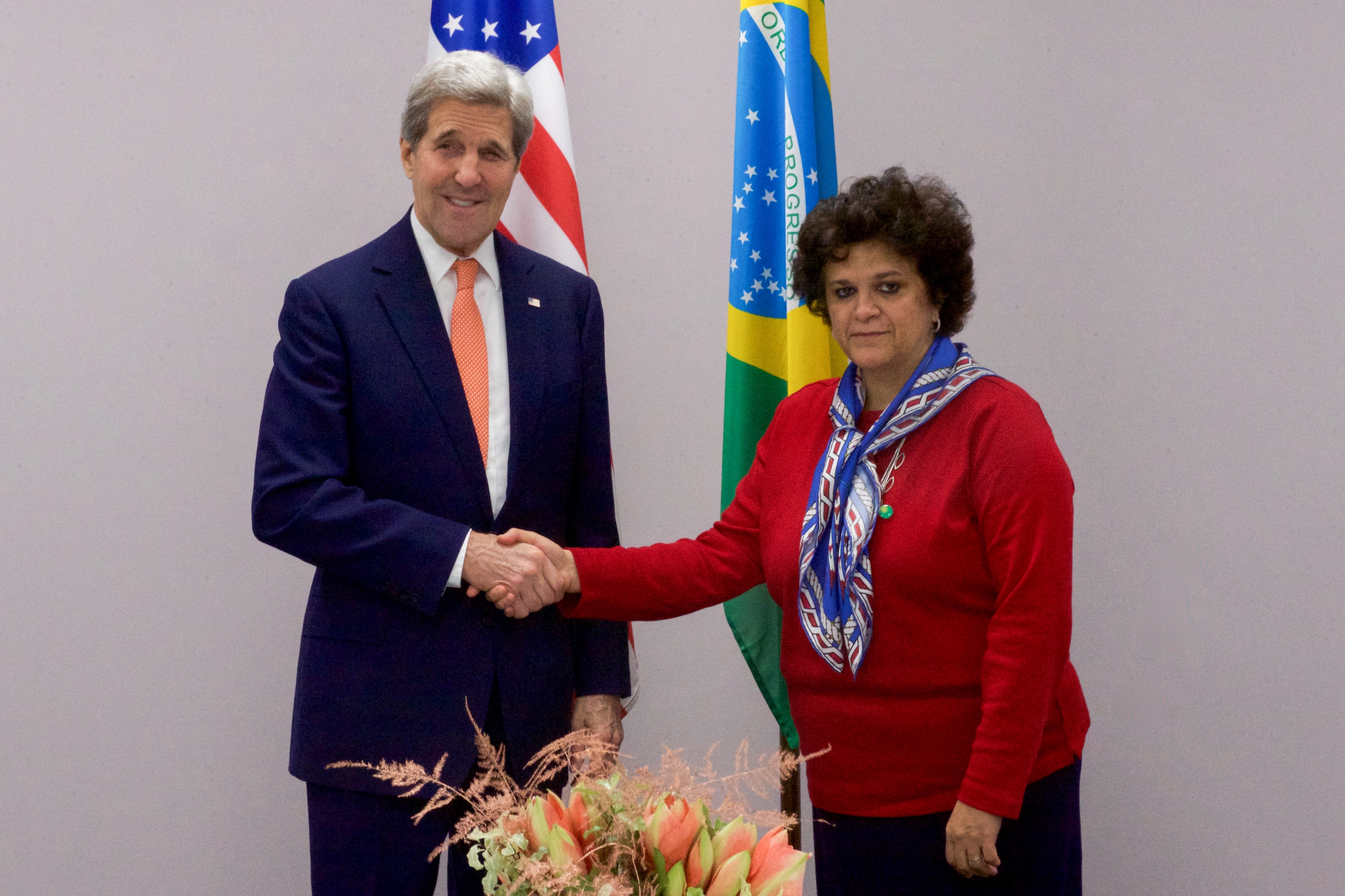 U.S. Secretary of State John Kerry stands with Izabella Teixeira, Brazil's Minister of Environment, before their meeting at the COP21 climate change summit in Paris, France, on December 10, 2015. [State Department photo/ Public Domain]